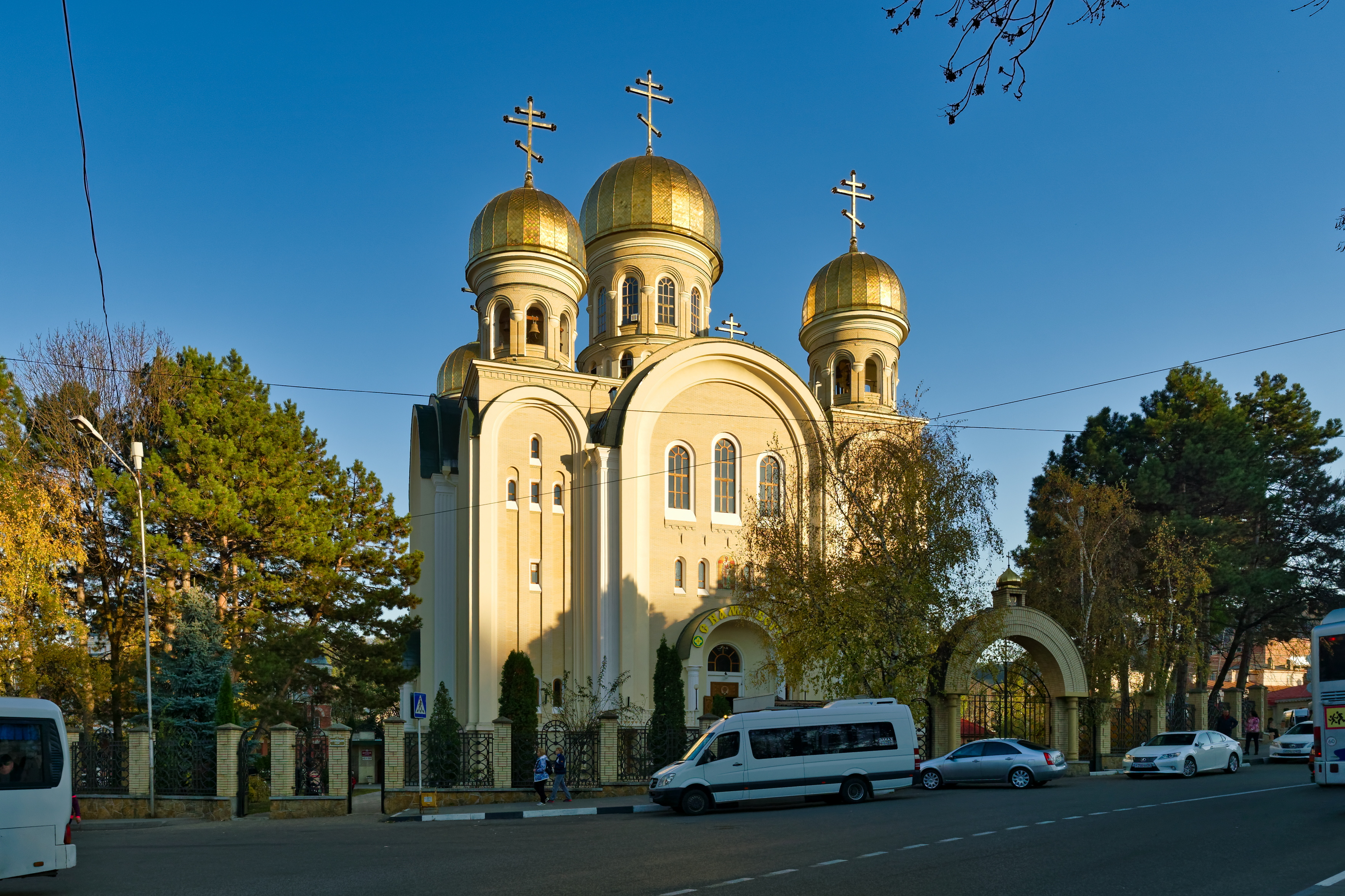 Kislovodsk. Saint Nicholas Cathedral